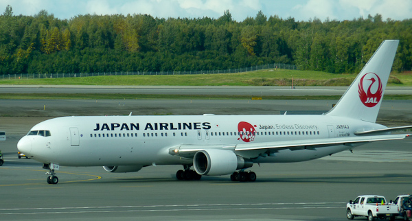 I was walking from the C Concourse at Anchorage International Airport to baggage claim on 9/11/11 - realized I had a few minutes so I went to the observation area to see a lot of mid-day traffic. What a nice little detour!